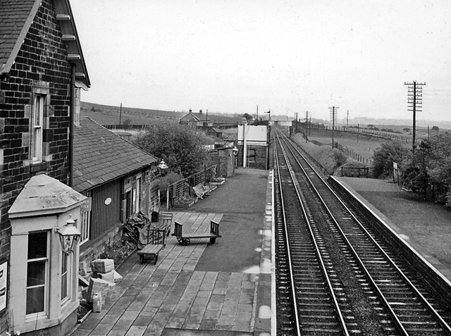 Baillieston Station. View eastwards towards Coatbridge, on Glasgow (Central) - Rutherglen - Coatbridge line. Closed October 1964, when passenger services on route withdrawn, but they were restored 30 years later and a new Baillieston station was built ¼-mile to west in October 1993.